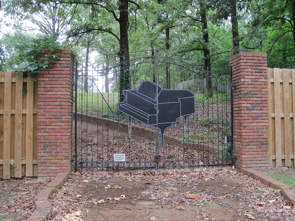 Jerry Lee Lewis Ranch on Malone Road in DeSoto County, Mississippi.